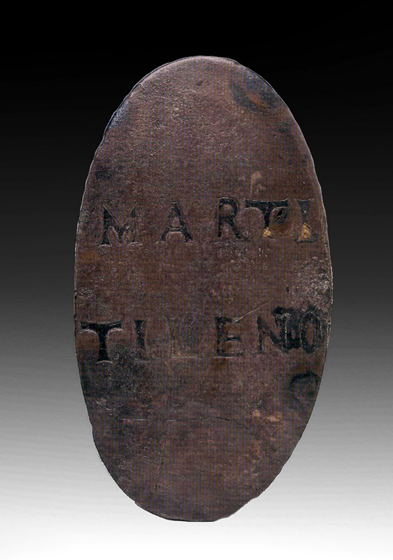 Dios Tilenus